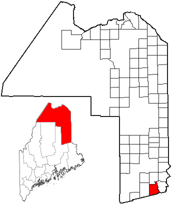 Adapted from U.S. Census Bureau maps (American FactFinder) and Wikipedia's ME county maps by Bumm13.